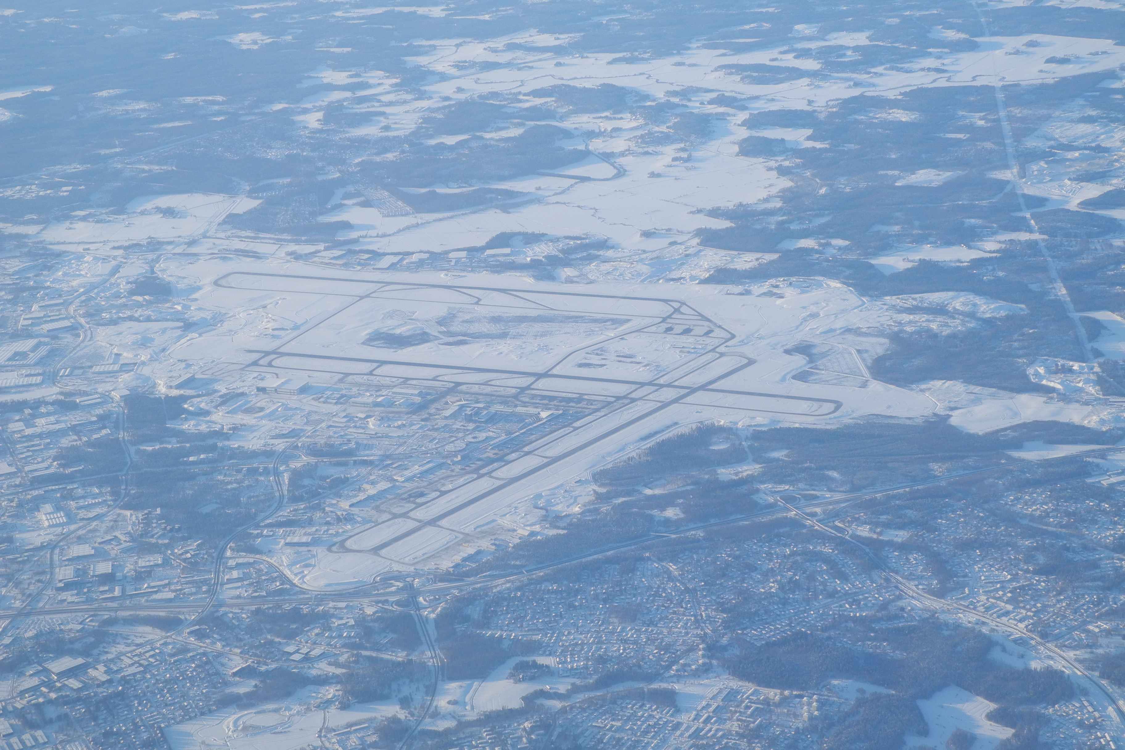 Helsinki-Vantaa Airport seen from the altitude of 9.000 feet (2.700 m).